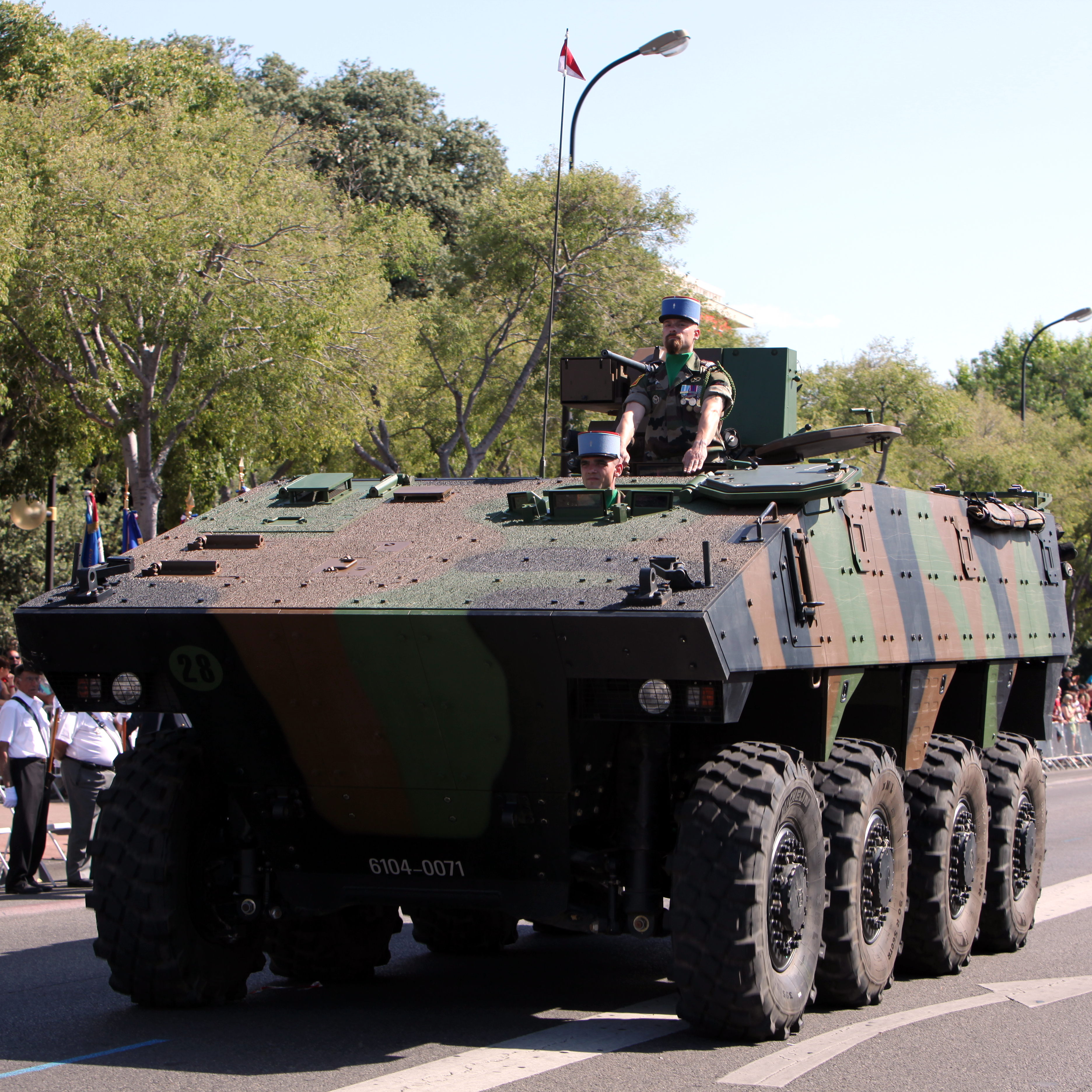 Véhicule blindé de combat d'infanterie of the 1er régiment de chasseurs d'Afrique during the military parade of 14 July 2012 in Marseille. The making of this document was supported by Wikimédia France. (Submit your project!)